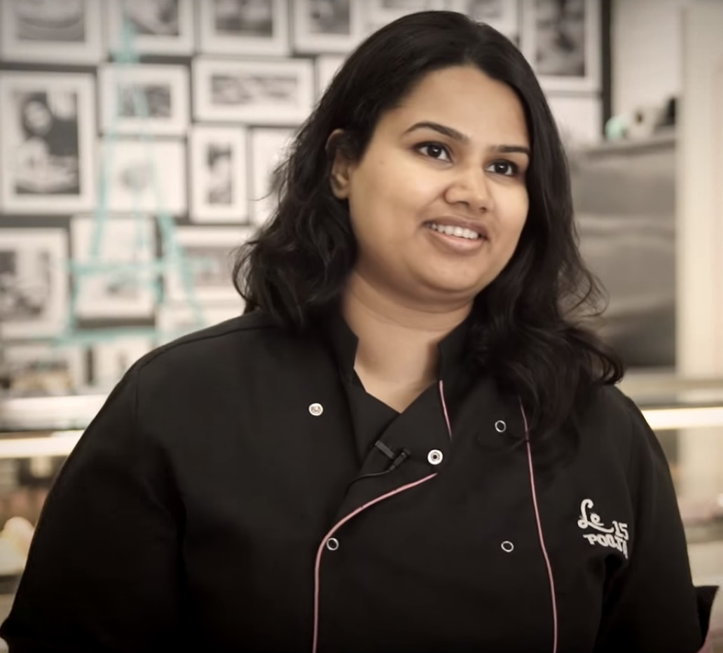 Indian pastry chef Pooja Dhingra for Audi of India's #StartYoung campaign.